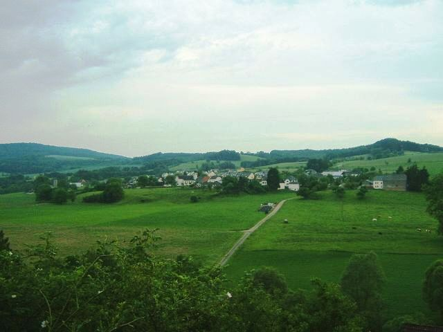 Bettel, a small village in Luxembourg at the river Our near the german border, here: view from Roth an der Our to Bettel